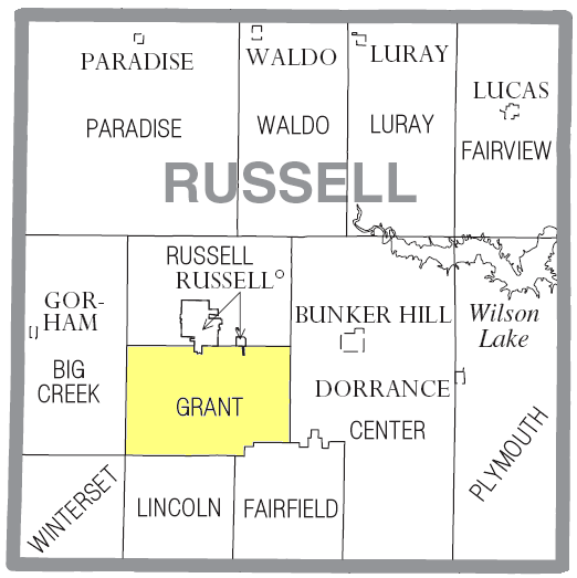 Map of Russell County, Kansas highlighting Grant Township